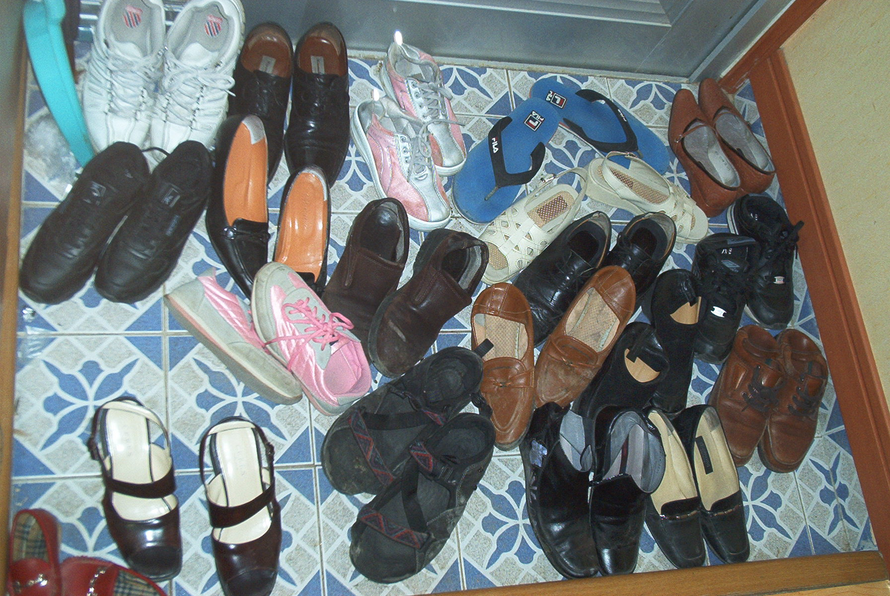 토방 (Tobang) in Korea: This is not a very good example for a Genkan, because only the pair of shoes in the upper right corner obeys to the rule that the shoes should point outward to the exit door